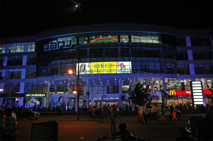 saharaganj